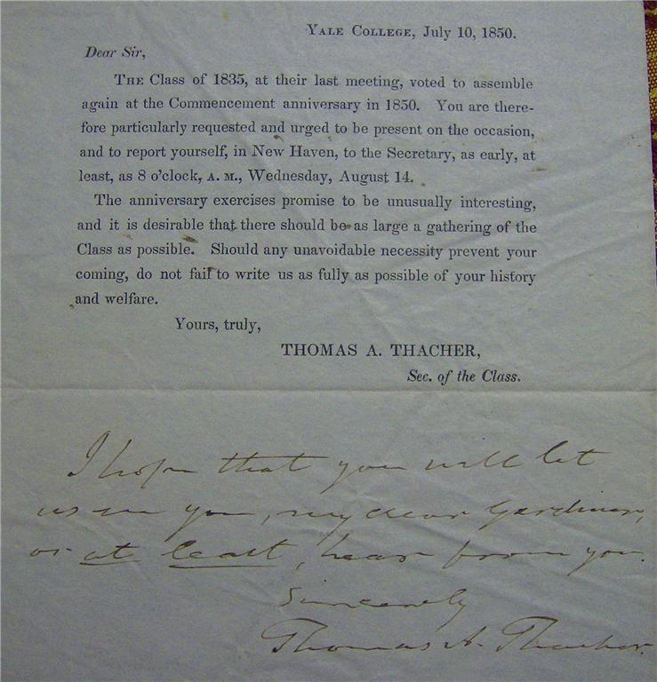 Yale University Class of 1835 Class reunion notice, printed, with personal note at bottom, from class secretary Thomas A. Thatcher; an example of class reunion notices from the 19th century; written note at bottom reads: "I hope that you will let us see you, my dear Gardiner (sp?), or at least hear from you. Sincerely, Thomas A. Thacher"